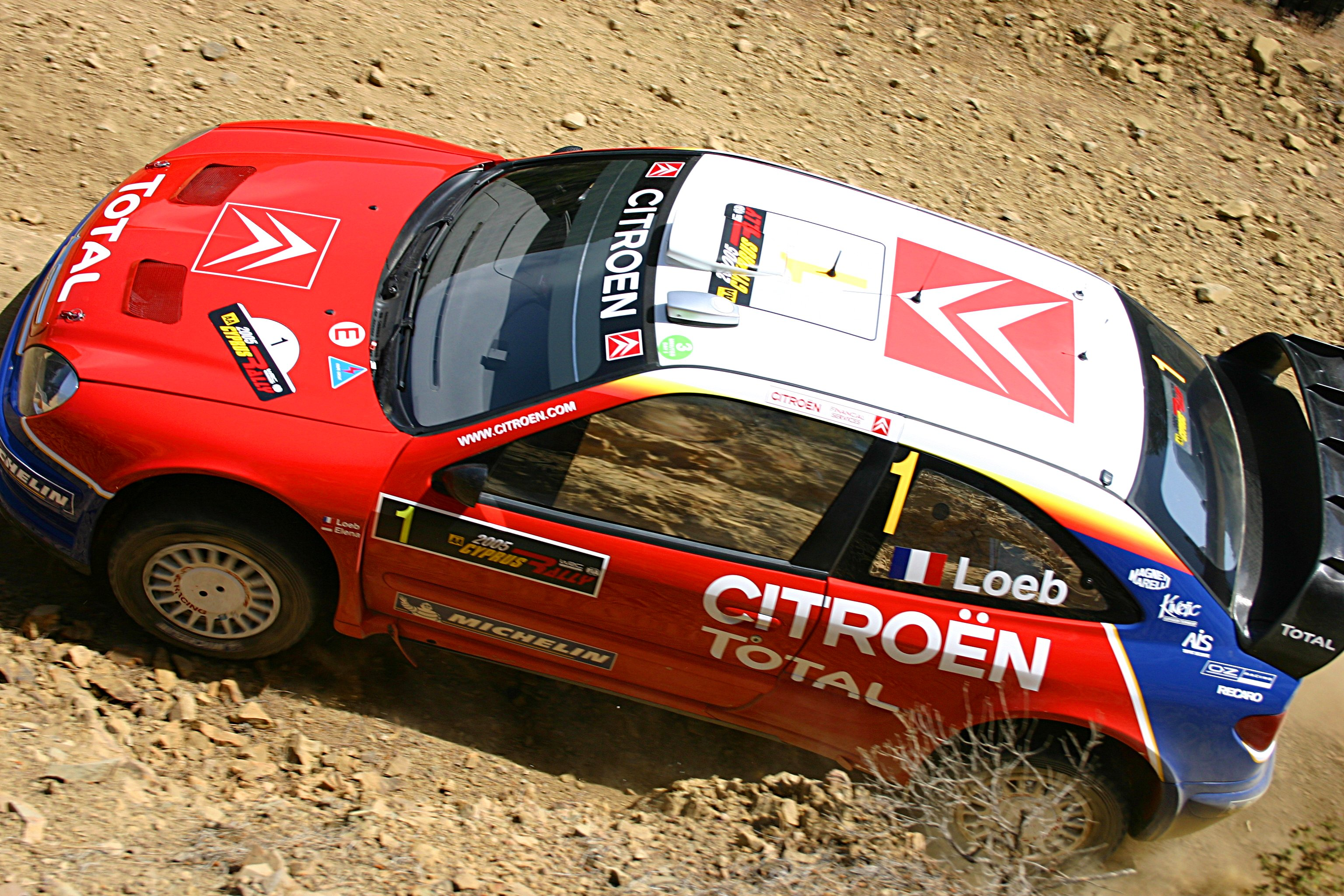 Sébastien Loeb driving his Citroën Xsara WRC at the 2005 Cyprus Rally.